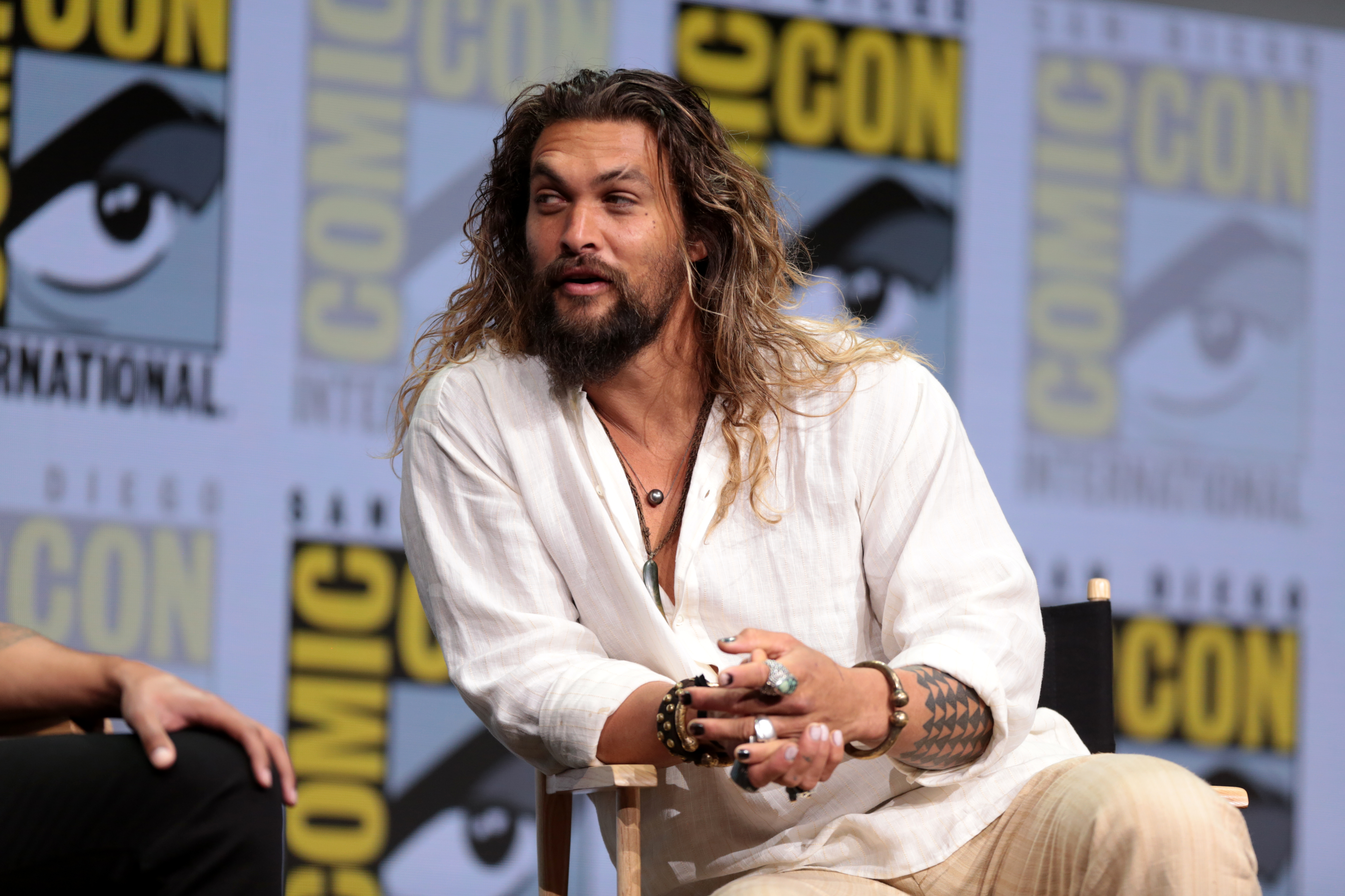 Jason Momoa speaking at the 2017 San Diego Comic Con International, for "Justice League", at the San Diego Convention Center in San Diego, California.